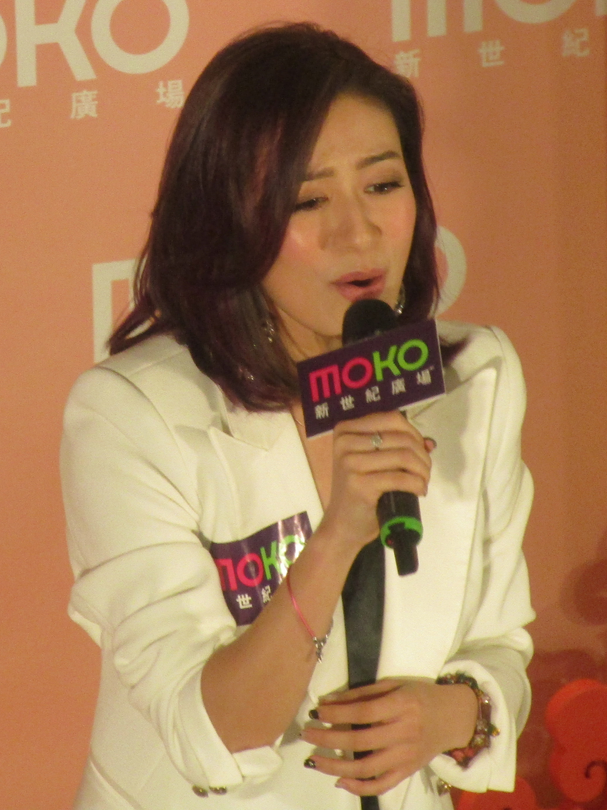 Elanne Kong is in MOKO, Mong Kok